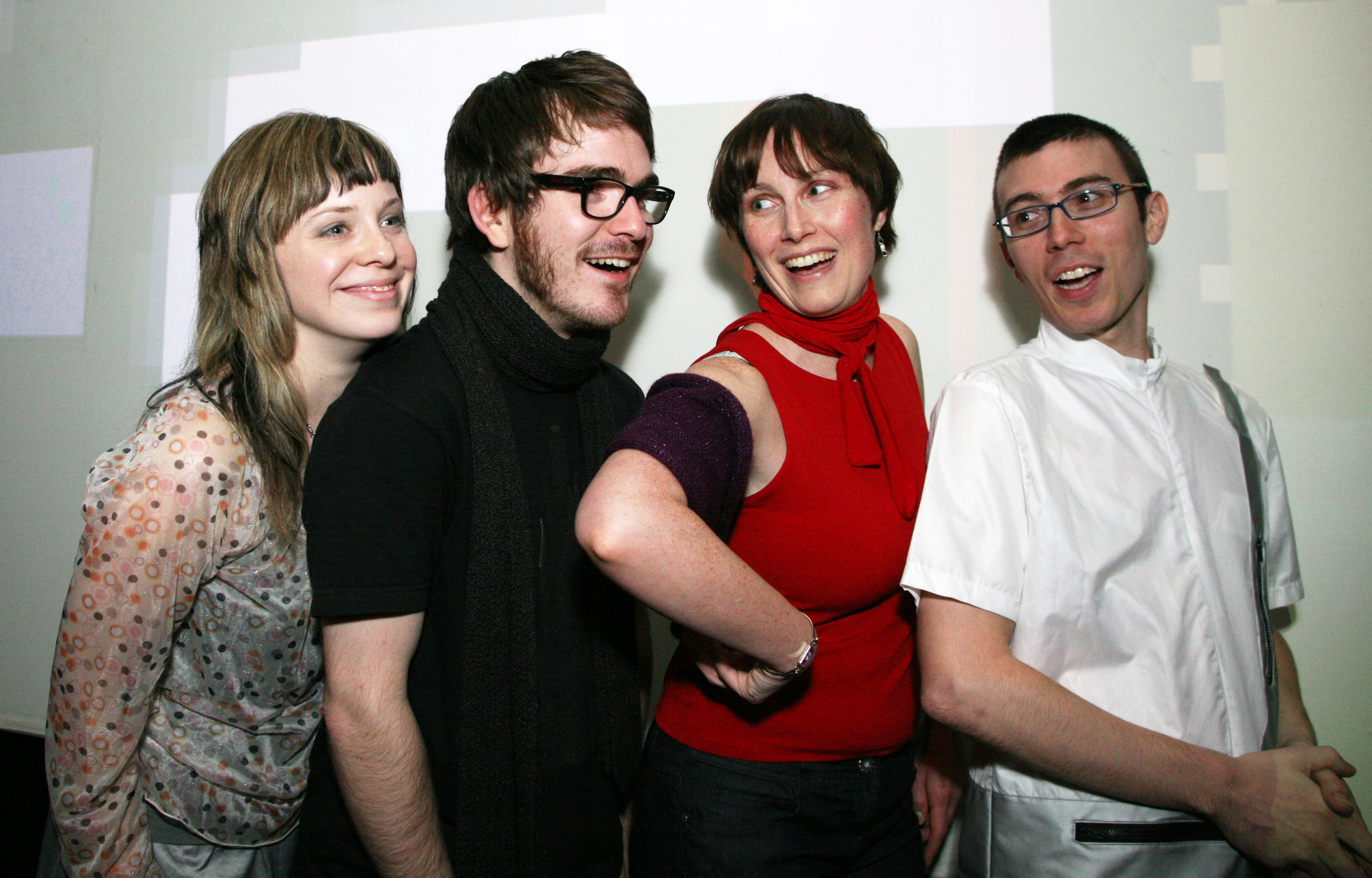 The Kokoromi colletive − Cindy Poremba, Phil Fish, Heather Kelley and Damien di Fede − during the gamma 256 event in 2007.